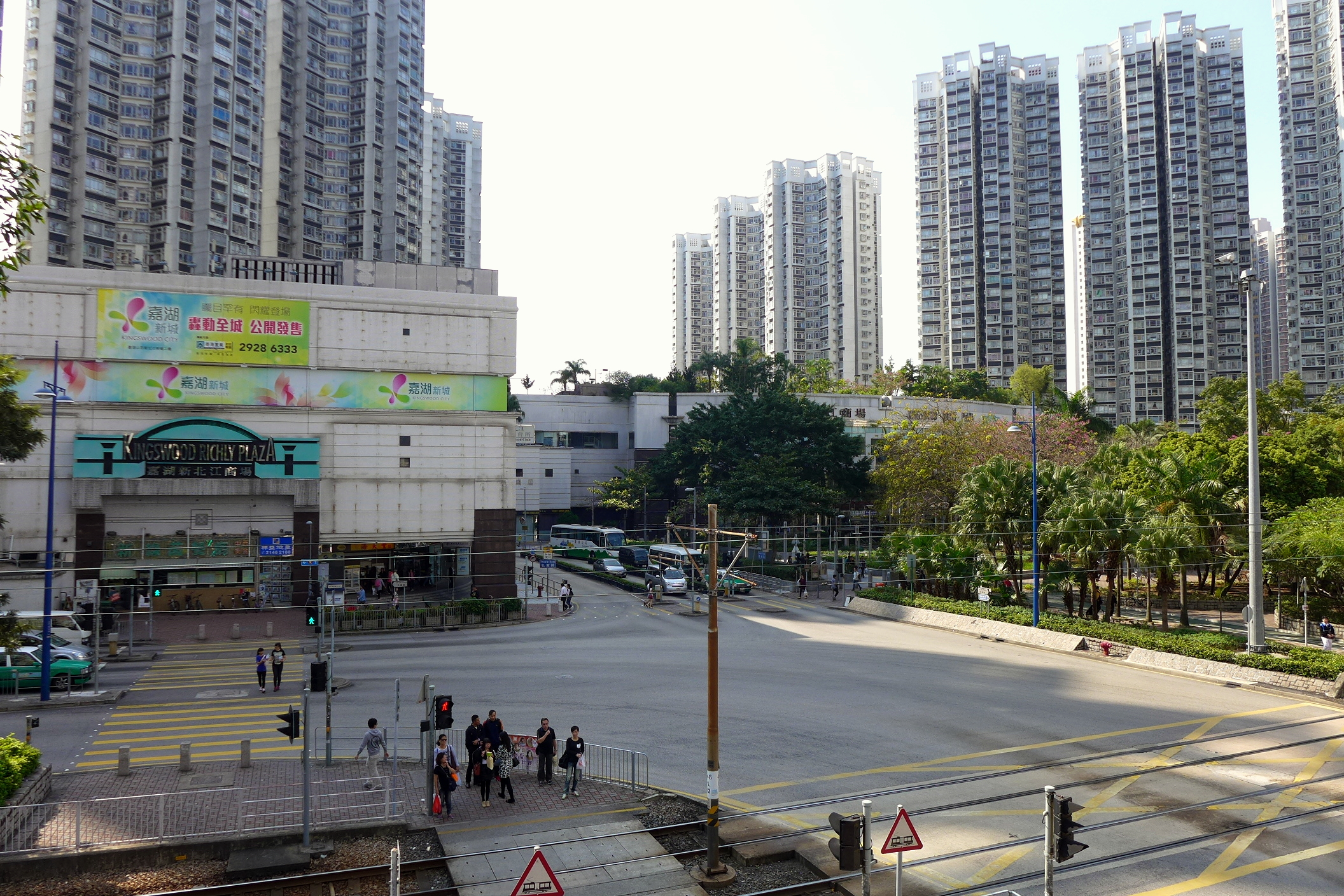 Kingswood Richly Plaza